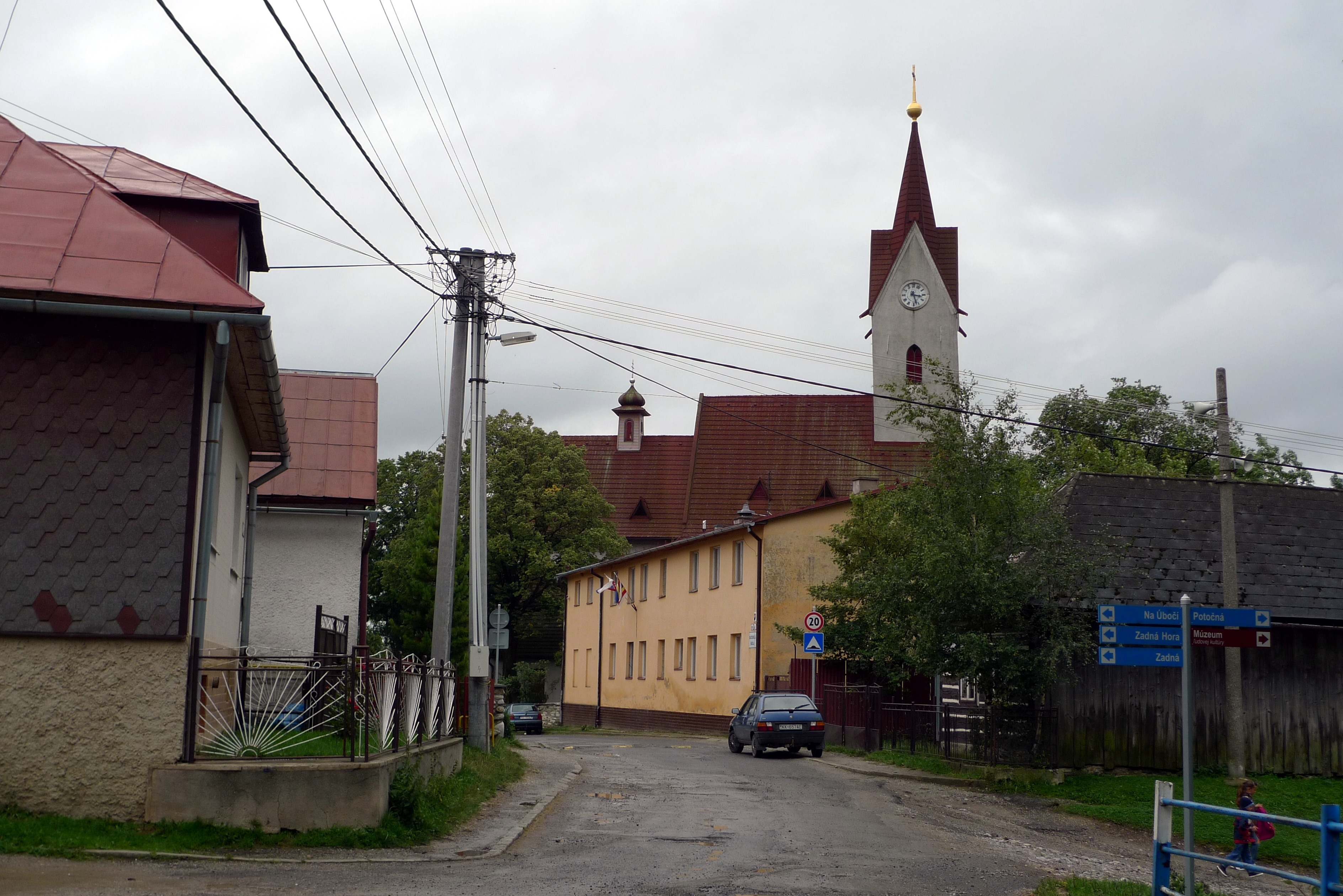 Lendak - village in Slovakia